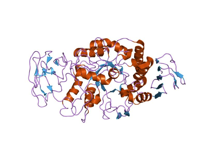 Cartoon representation of the molecular structure of protein registered with 1eh9 code.